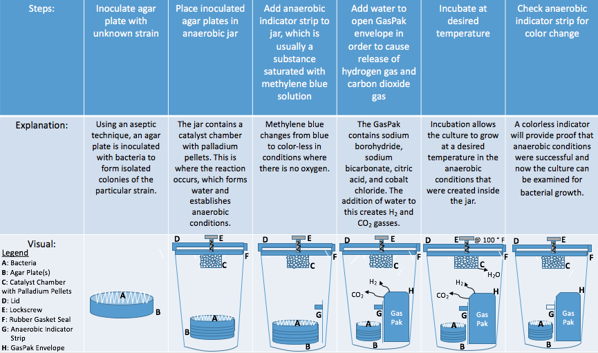 This is a table describing the purpose and structure of a Gas Pak.